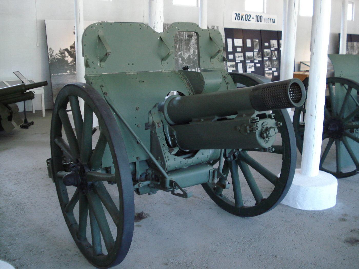 British 114 mm 4.5 inch Mk2 howitzer (carriage M1), displayed in Hämeenlinna Artillery Museum. This particular gun was manufactured in 1916. Photo taken on June 18, 2006. Source: Photo by me, User:Balcer.